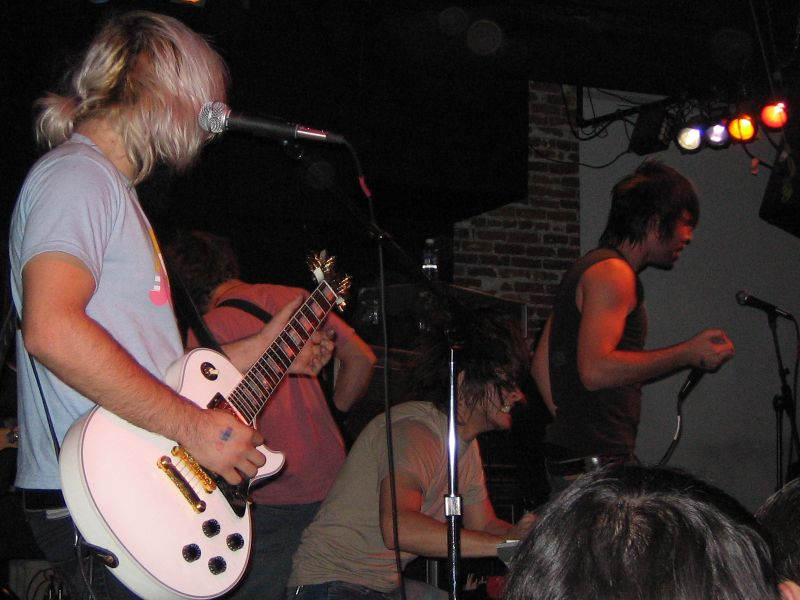 Scary Kids Scaring Kids perforing live on November 14, 2005. Taken from Flickr - [1]. Uploaded by JoshMock.